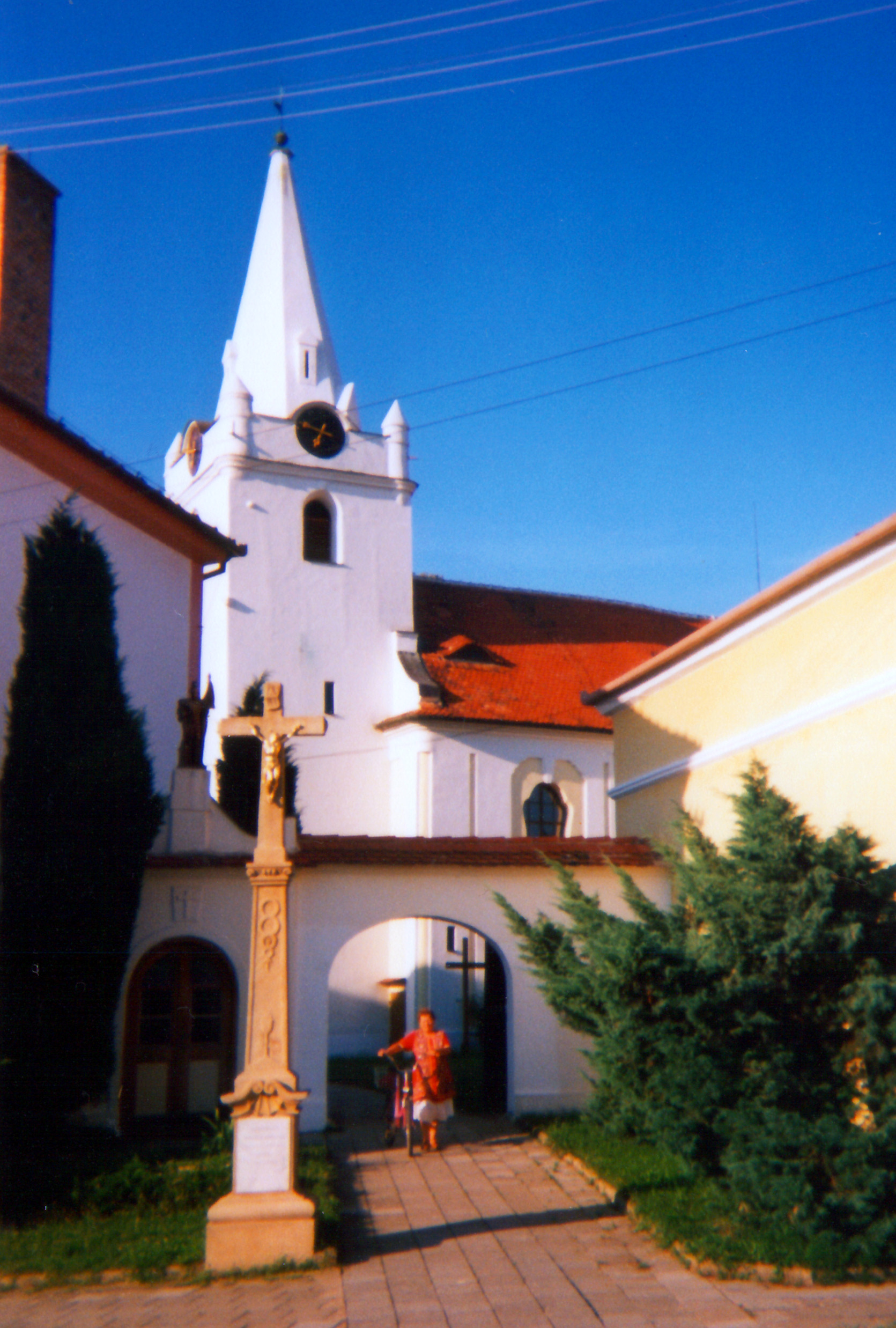 Church of Saint John the Baptist in Telnice, Brno-Country District, Czech Republic.